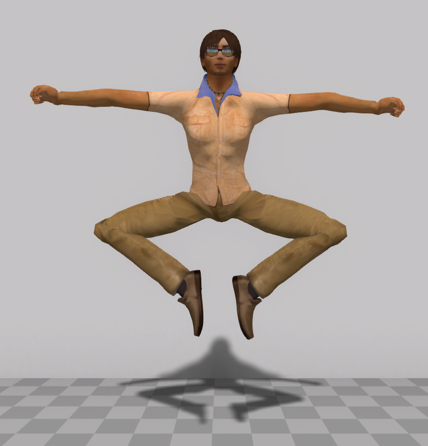 Aoki Jump of Steve Aoki